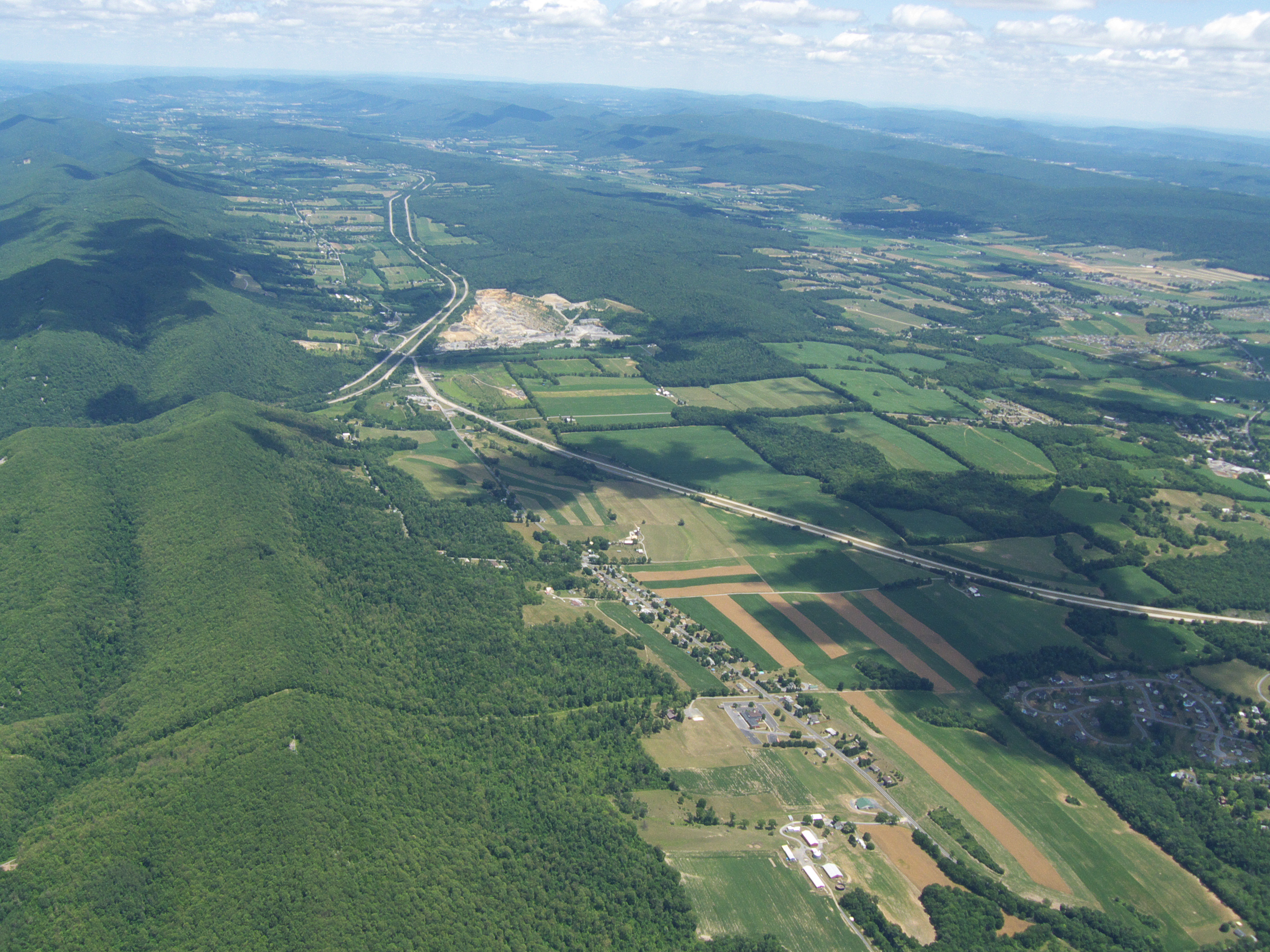 An aerial view of the Nittany Valley looking east near Bellefonte, Pennsylvania. Photo taken in July 2007.